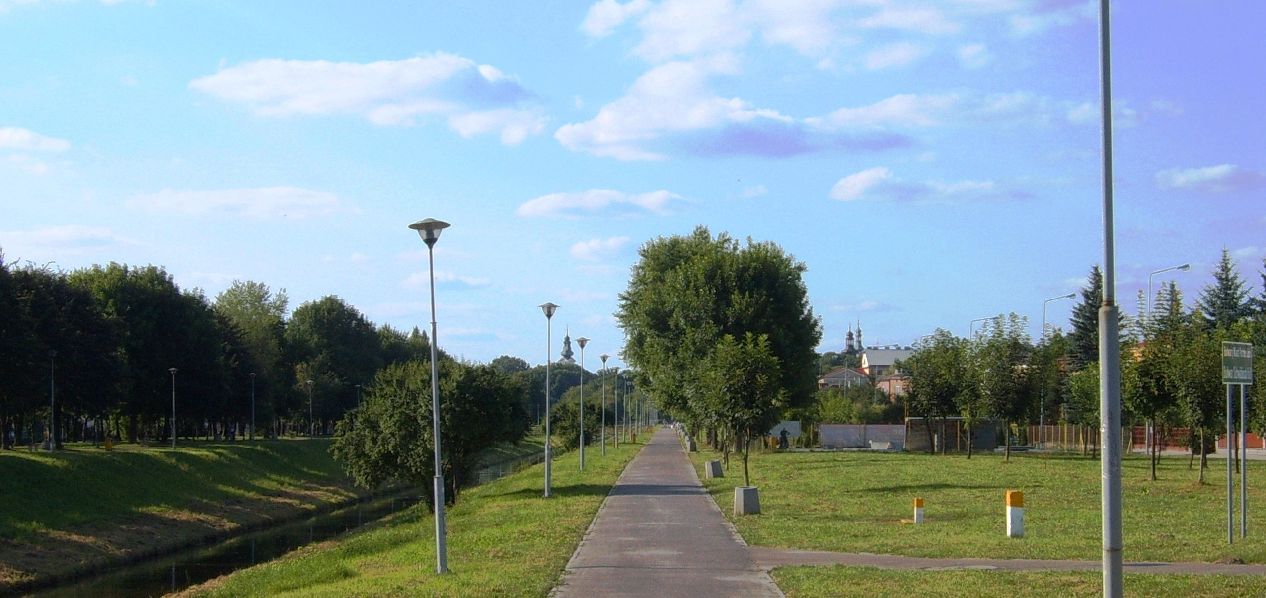 Boulevard in quarter "Promyk housing estate" in Zamość